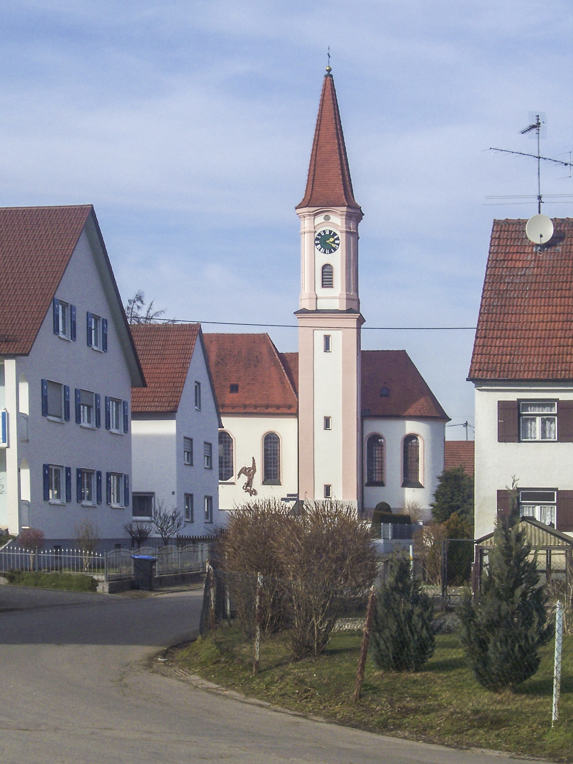 The church of St. Jakobus at Ritzisried